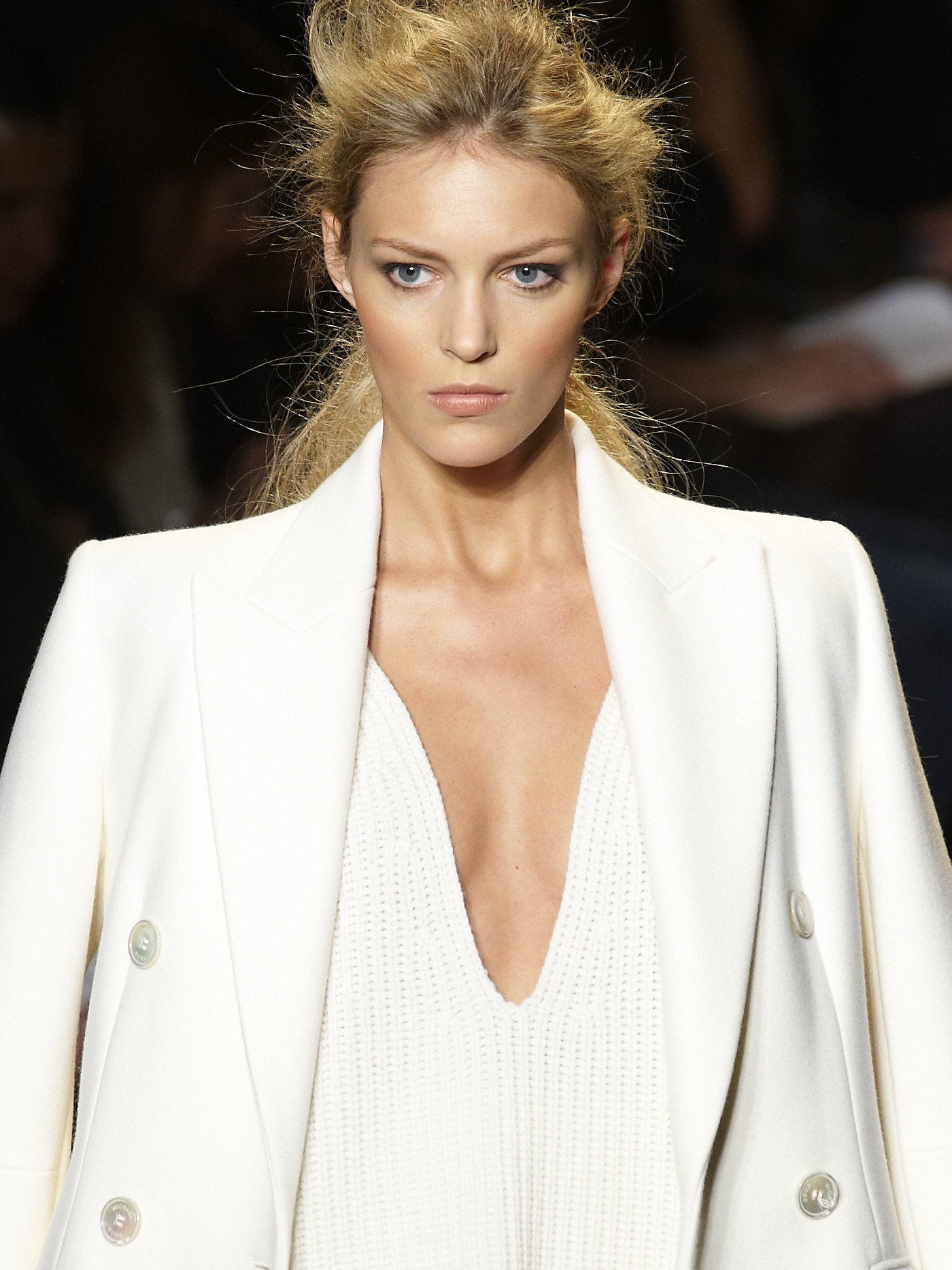 A model walks the runway at the Michael Kors Fall/Winter 2010 show at New York Fashion Week, February 2010.